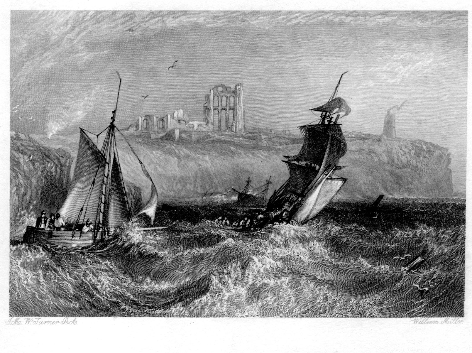 Tynemouth priory (Rawlinson 641), proof engraving by William Miller after J M W Turner, published in Art and Song. A Series of Original Highly Finished Steel Engravings from Masterpieces of Art of the Nineteenth Century. Bell, Robert (Ed), Bell and Daldy, London 1867.